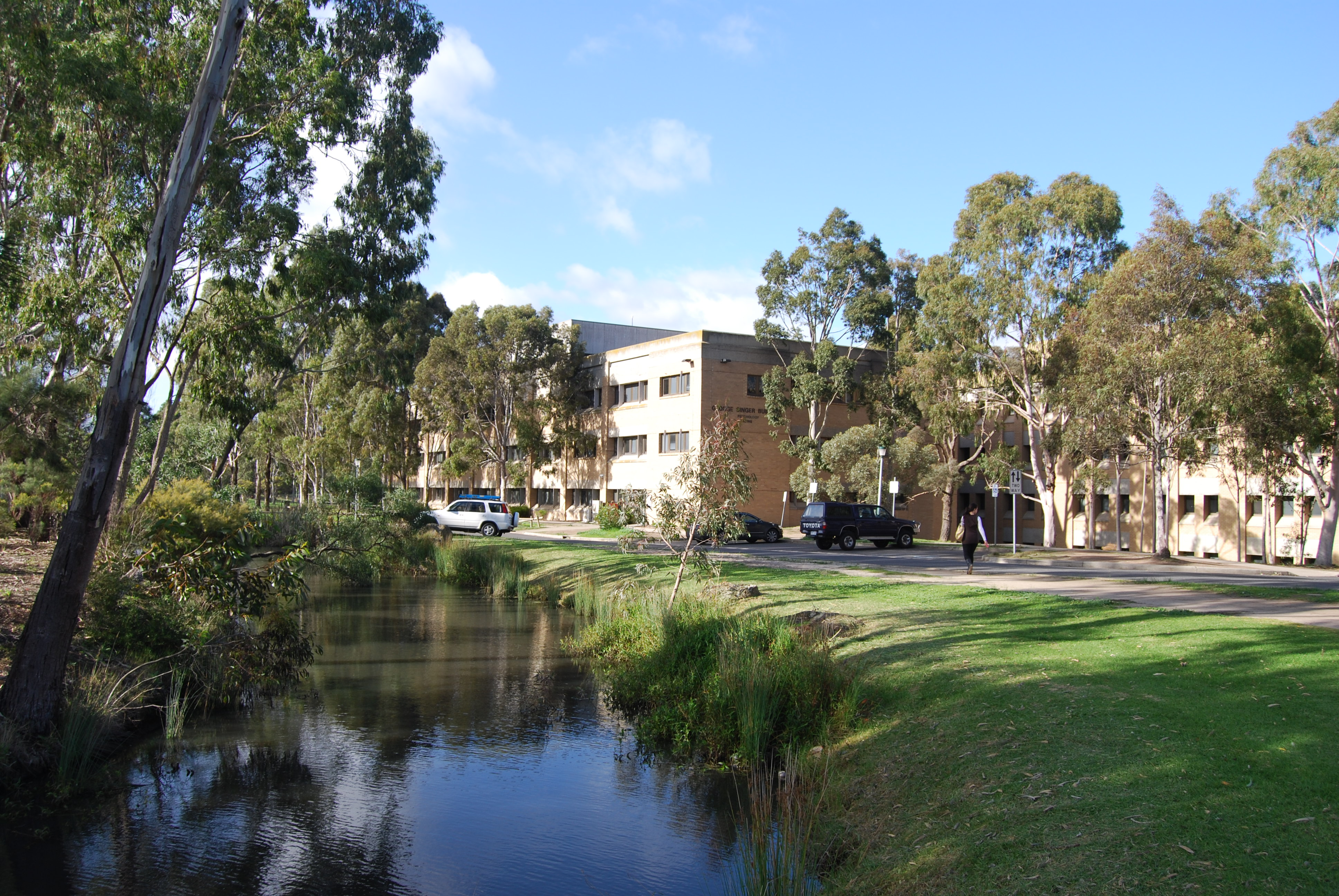 Moat with George Singer Building in the background, at La Trobe University Bundoora, Australia